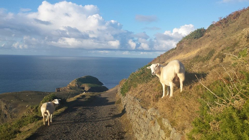 View on the coast path north of Llangrannog